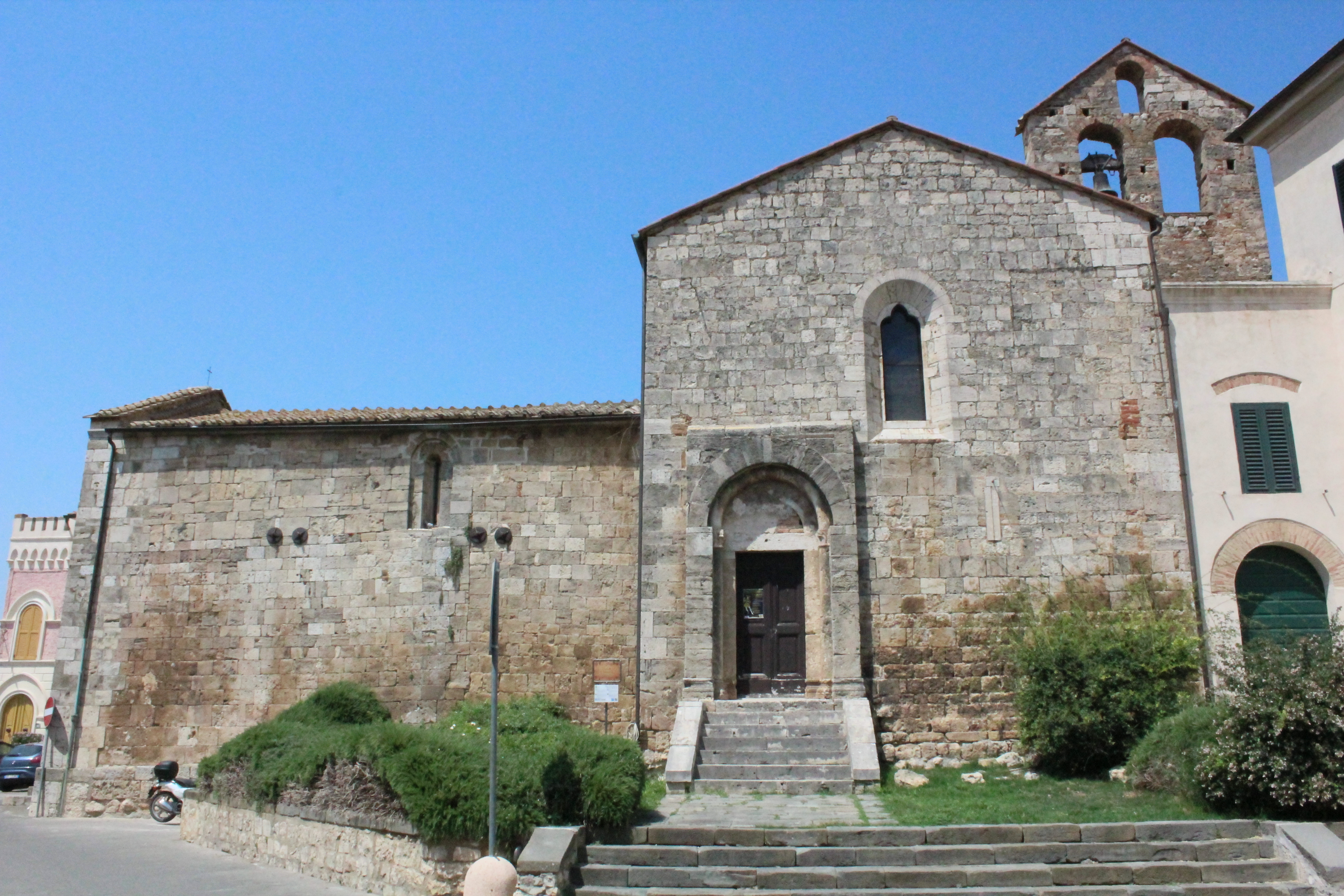 Church Pieve San Martino in Magliano in Toscana, Province of Grosseto, Tuscany, Italy